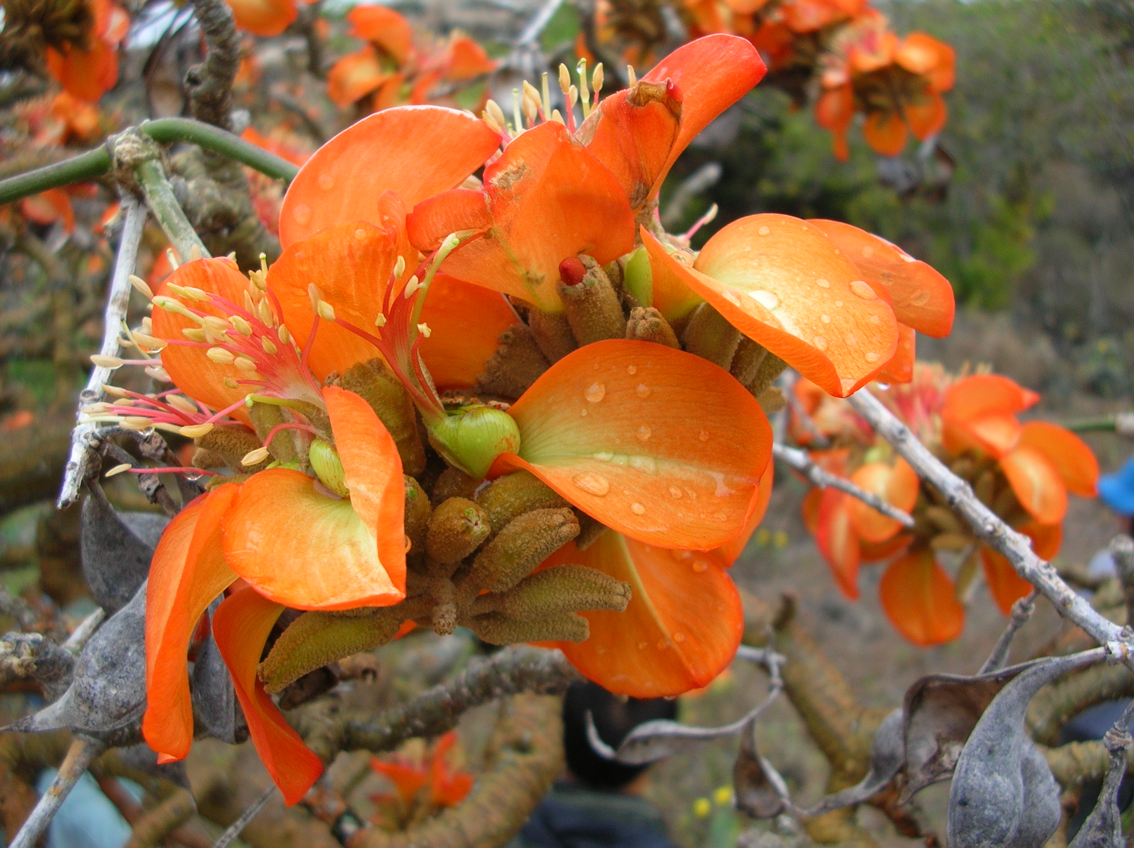 Erythrina sandwicensis (flowers). Location: Maui, Kanaio